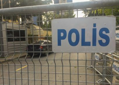 Front of the Consulate General of Saudi Arabia in Istanbul after killing of Jamal Khashoggi, Istanbul, Turkey.